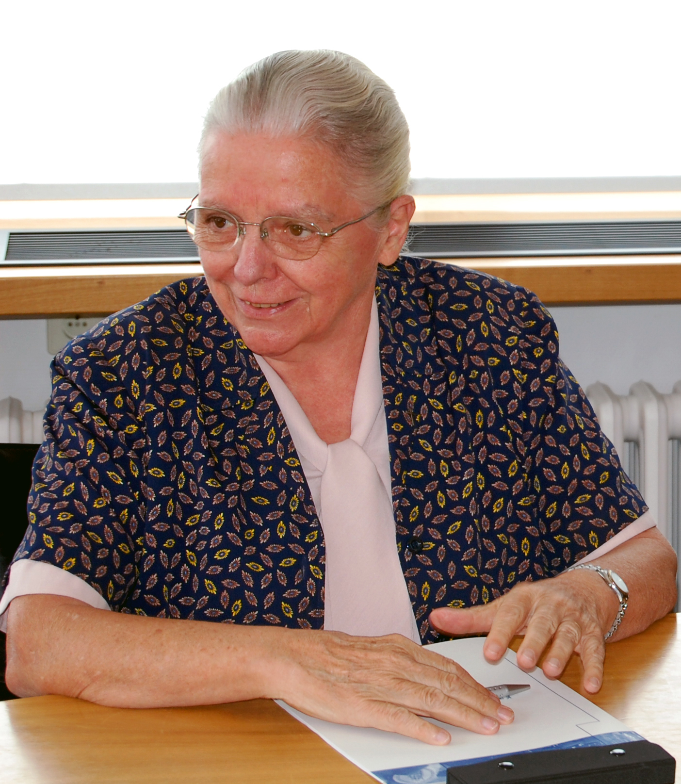 Belgian Roman-Catholic Sister and Missionary Jeanne Devos, head of the National Domestic Workers Movement (India).